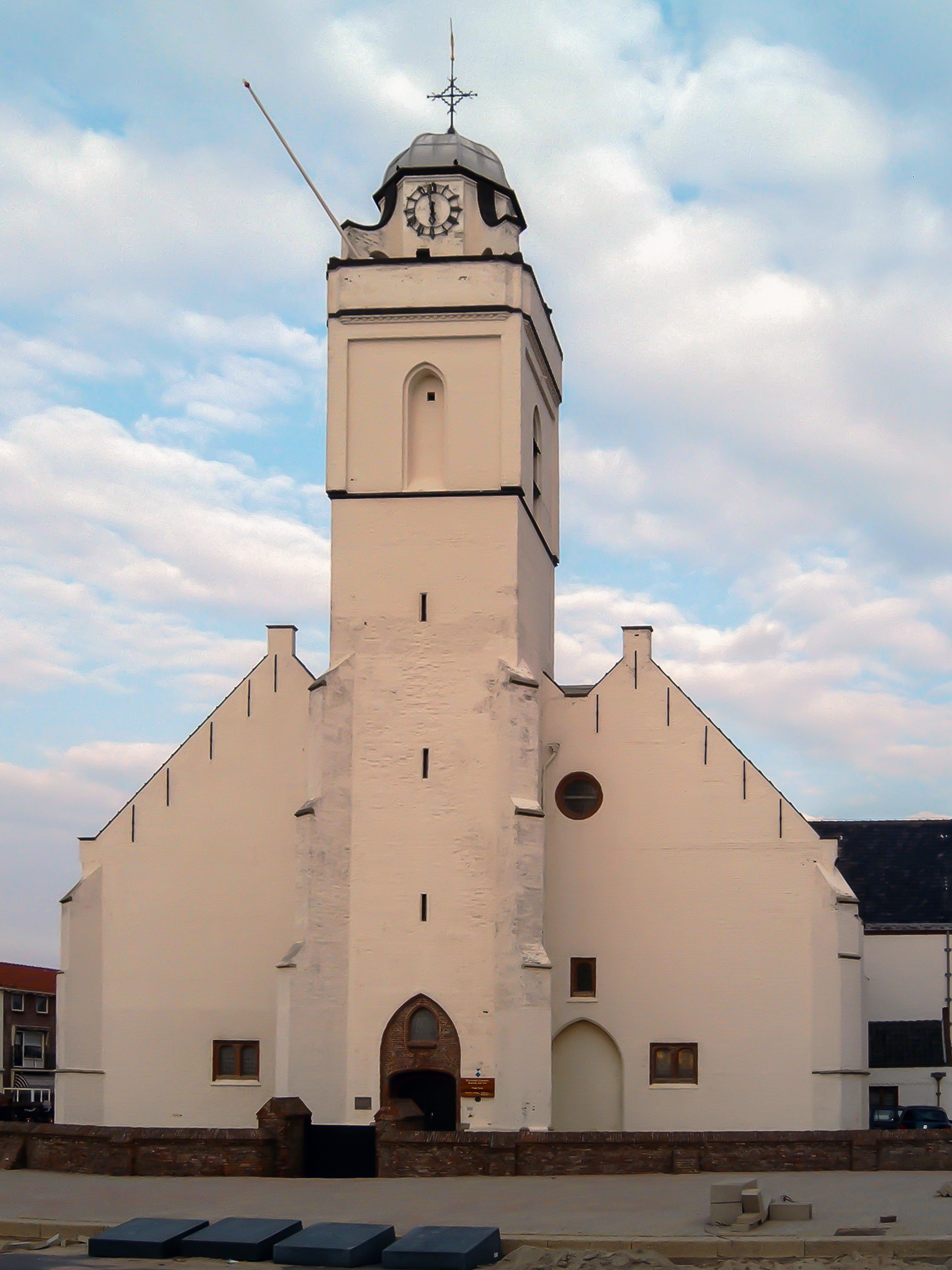 Katwijk, church: de Andreaskerk